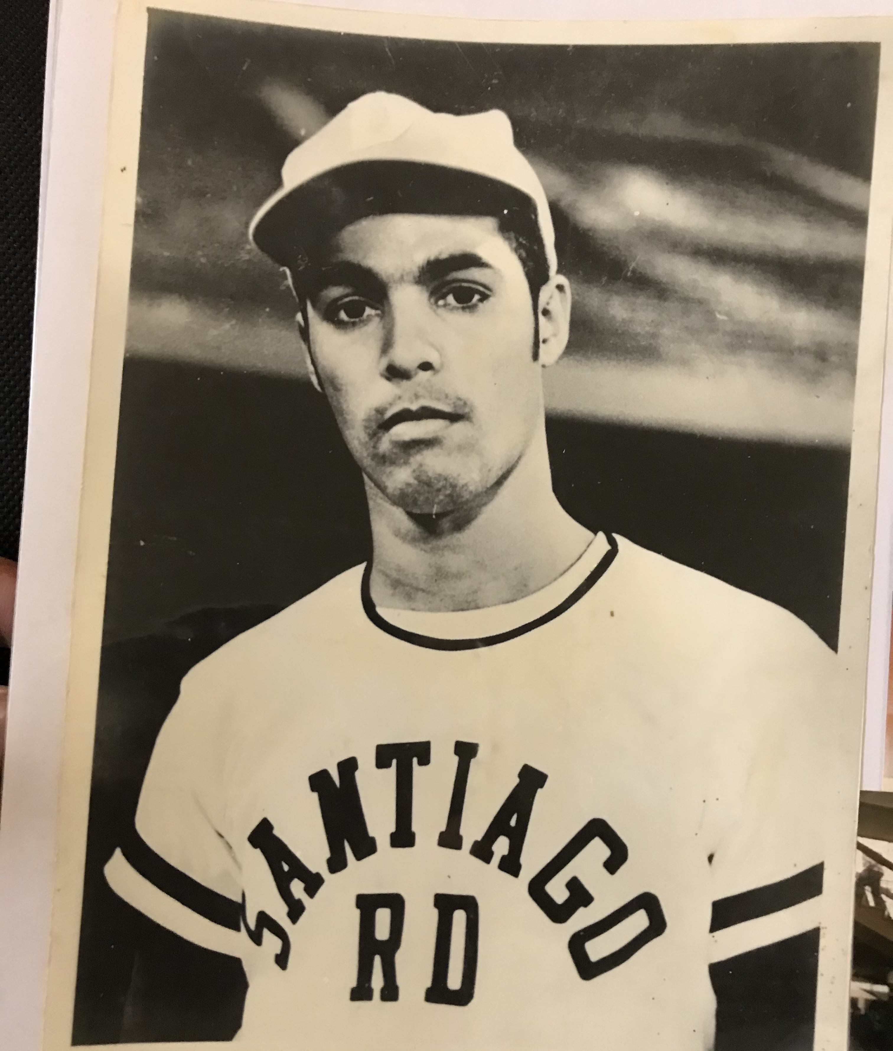 XXI Mundial de Softbol